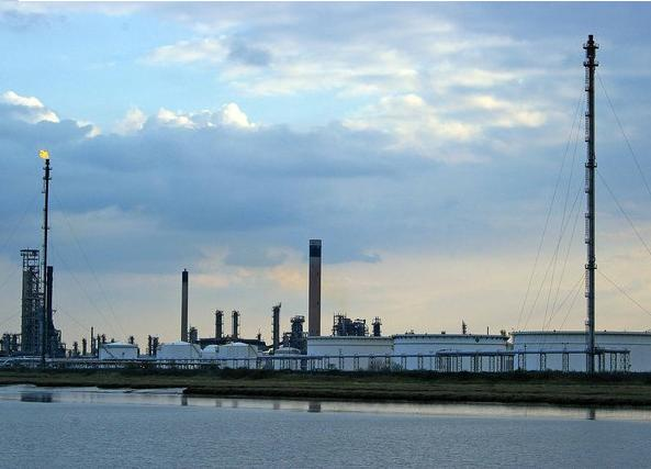 Photograph of flare stacks at Coryton Refinery in England.